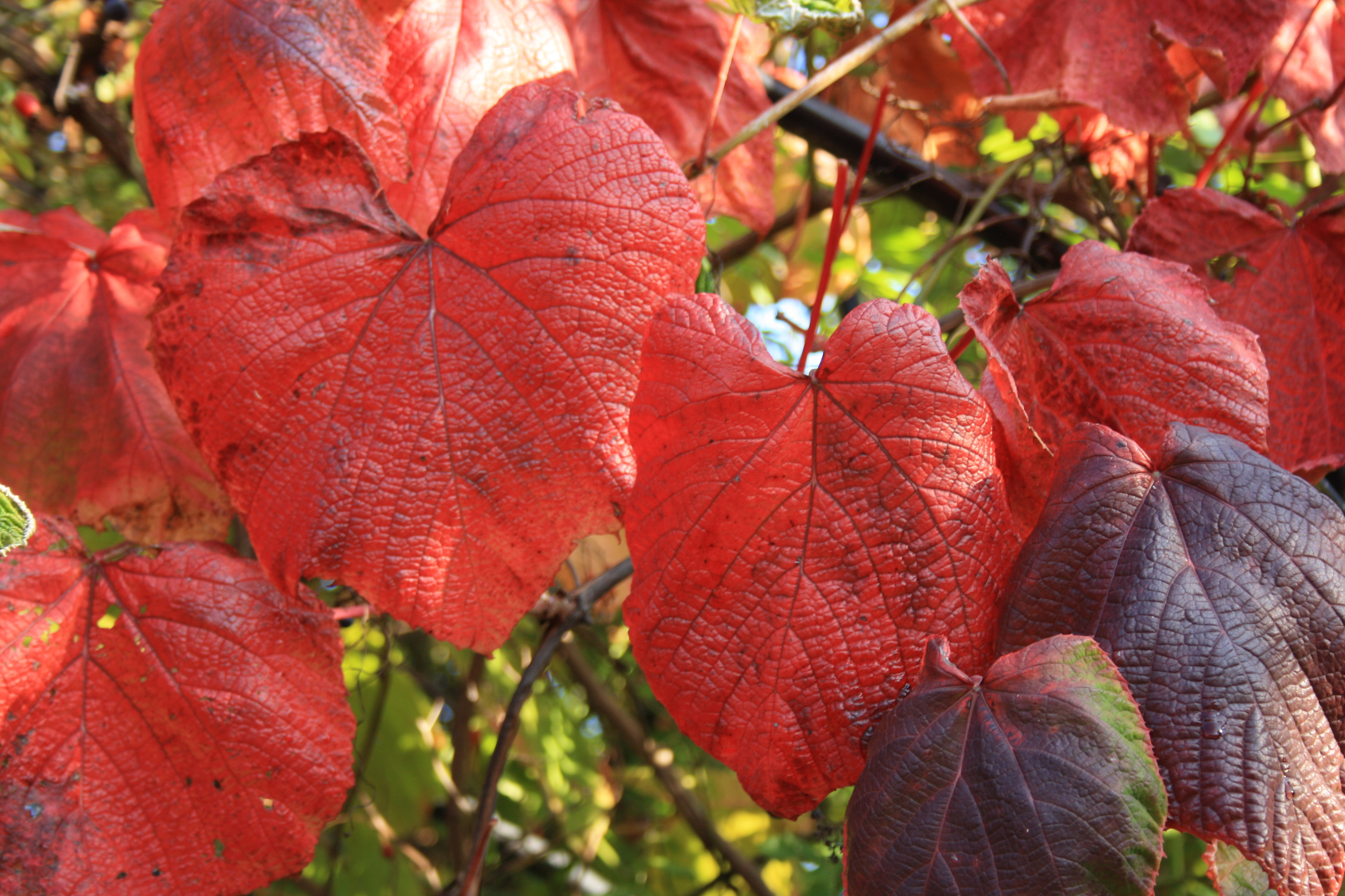 Breteuil castle is located in the town of Choisel, France